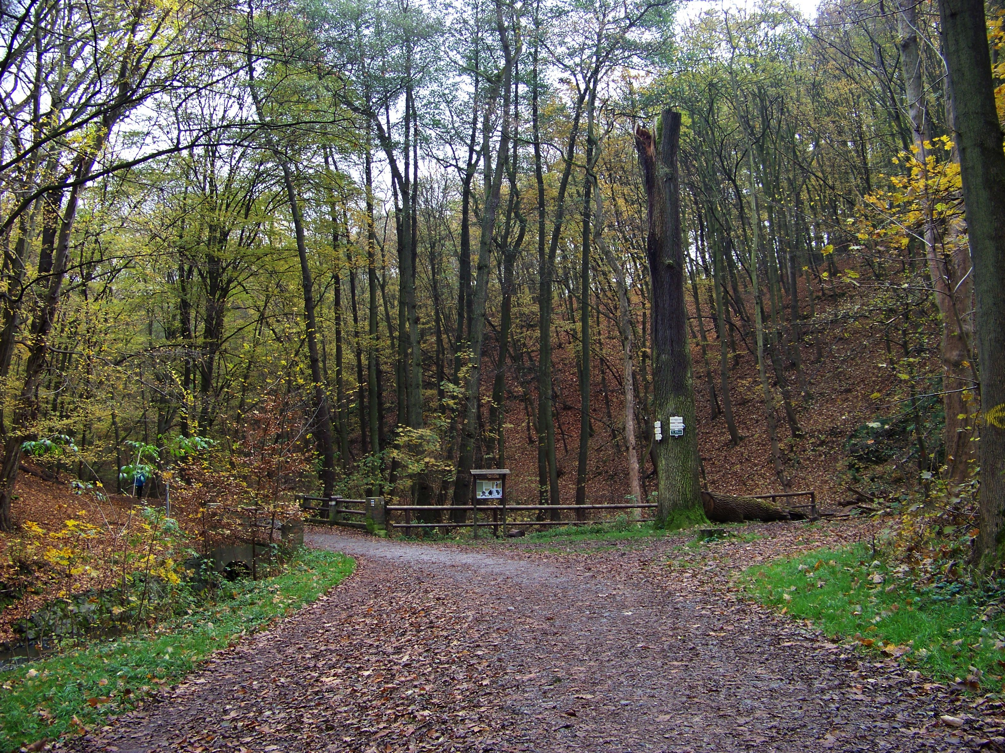 Prague-Kunratice, Czech Republic. Kunratice Forest, a bridge over the Kunratice Creek.